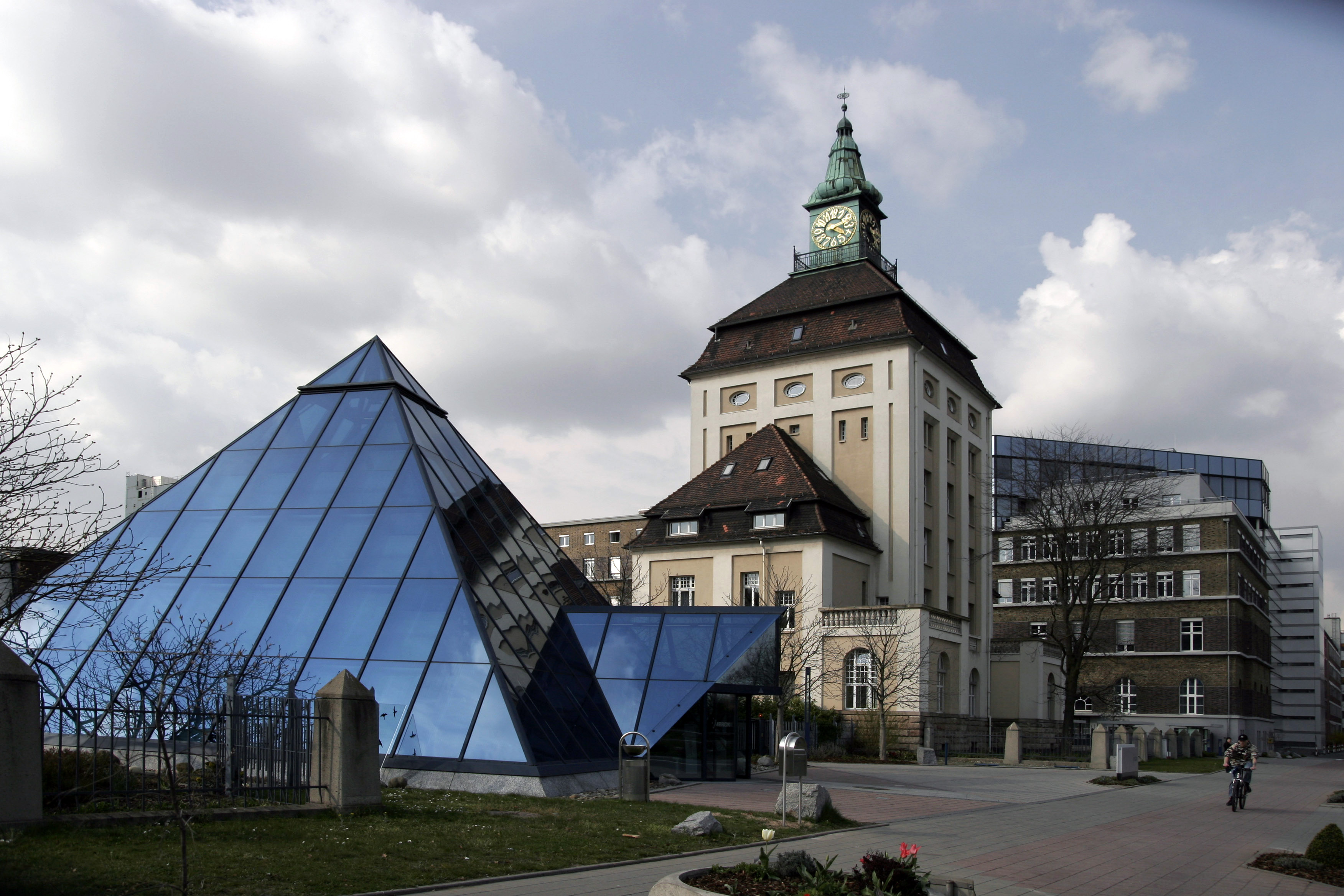 Merck KGaA, headquarters in Darmstadt, Germany, Frankfurter Strasse 250. The pyramid is the visitors' entrance. The "Green Tower" was designed by Friedrich Pützer and was finished in 1905.